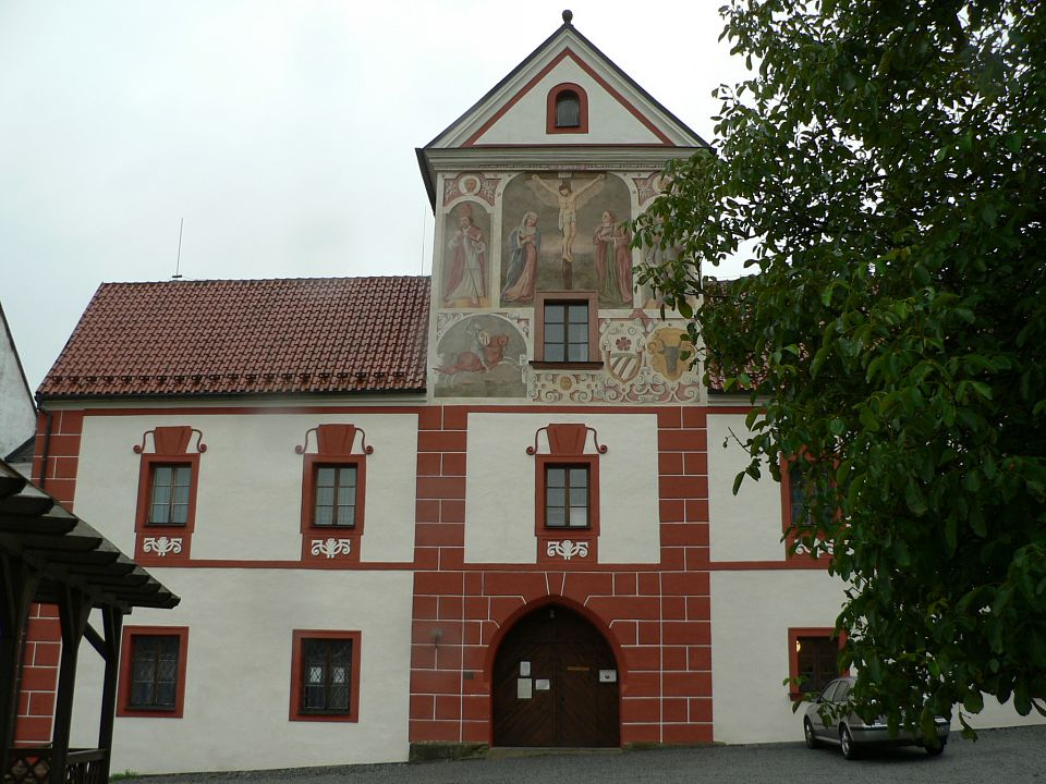 Cistercians monastery, Vyssi brod, Czech republic